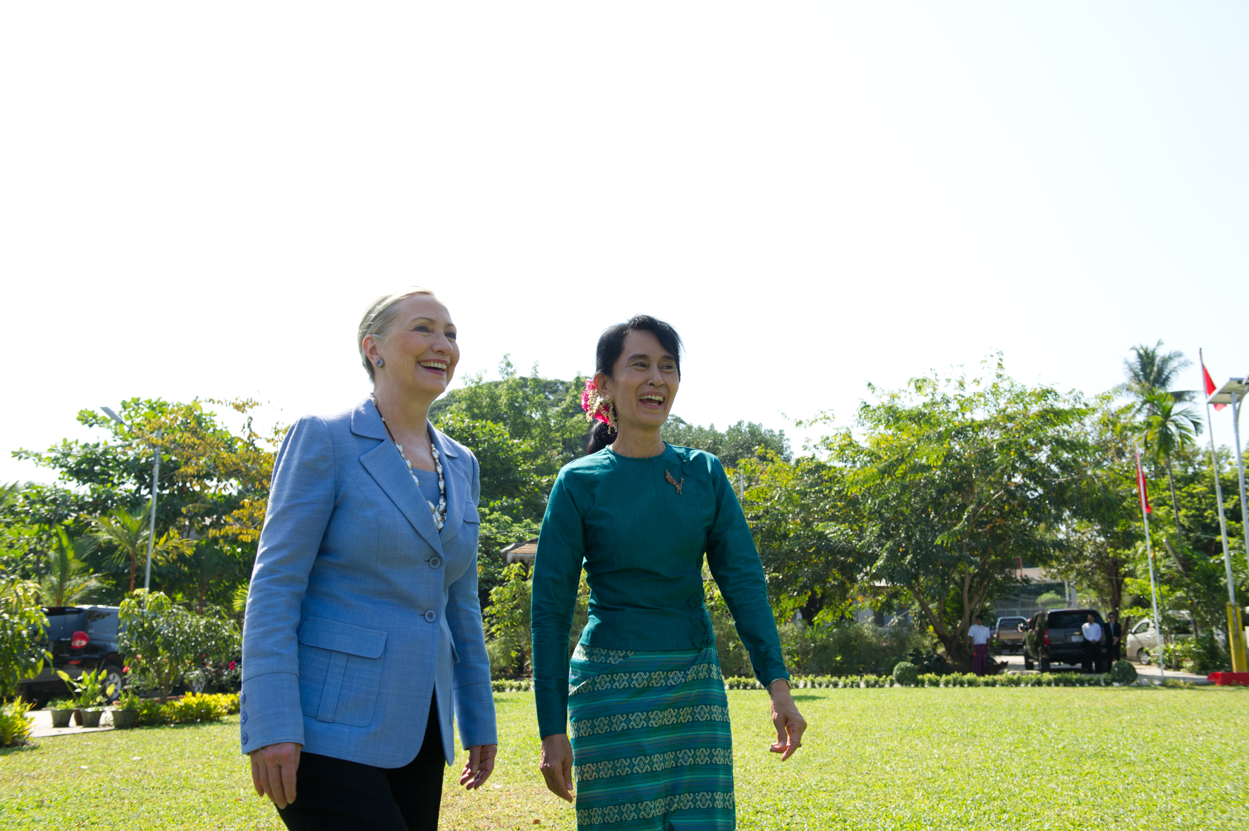 U.S. Secretary of State Hillary Rodham Clinton visits with Daw Aung San Suu Kyi at her house in Rangoon, Burma. Dec. 2, 2011. [State Department photo by William Ng]